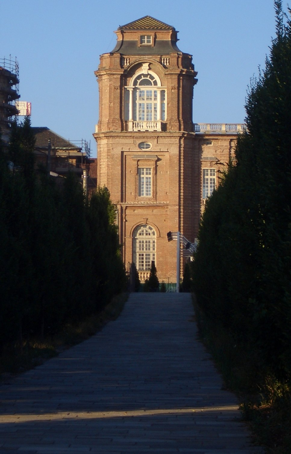 Sight of Reggia di Venaria Reale, royal palace located in Venaria Reale, near Turin, Italy